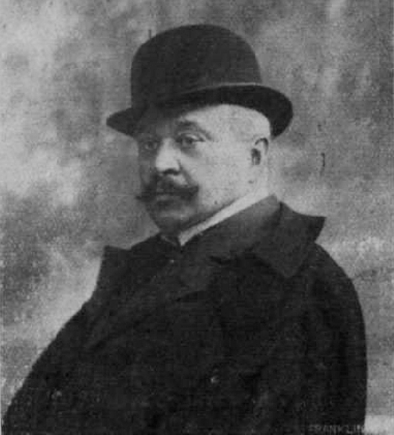 Portrait of Elek Kada